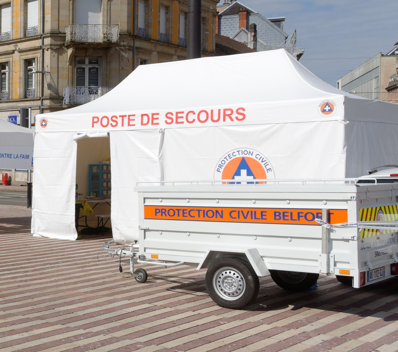 Personality rights warningAlthough this work is freely licensed or in the public domain, the person(s) shown may have rights that legally restrict certain re-uses unless those depicted consent to such uses. In these cases, a model release or other evidence of consent could protect you from infringement claims.